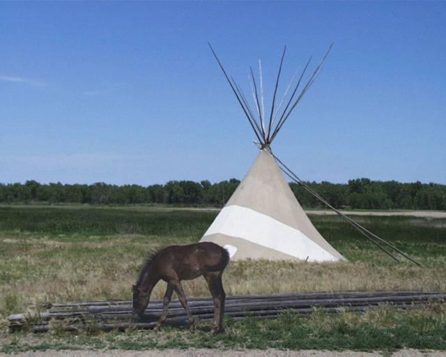 Bent's Old Fort, near La Junta, Colorado, USA. Tipis in front of the fort. The Cheyenne people usually were on friedly terms with the traders.